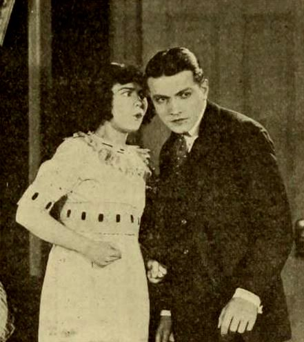 Still from the American film I'll Get Him Yet (1919) with Dorothy Gish showing Richard Barthelmess that she can whistle, on page 1381 of the May 31, 1919 Moving Picture World.